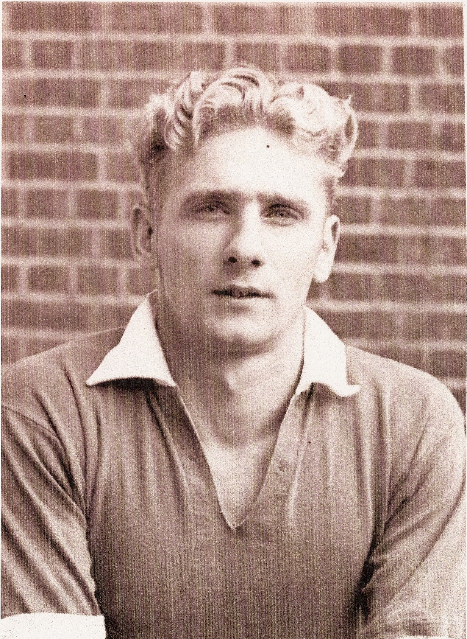 Len Staples